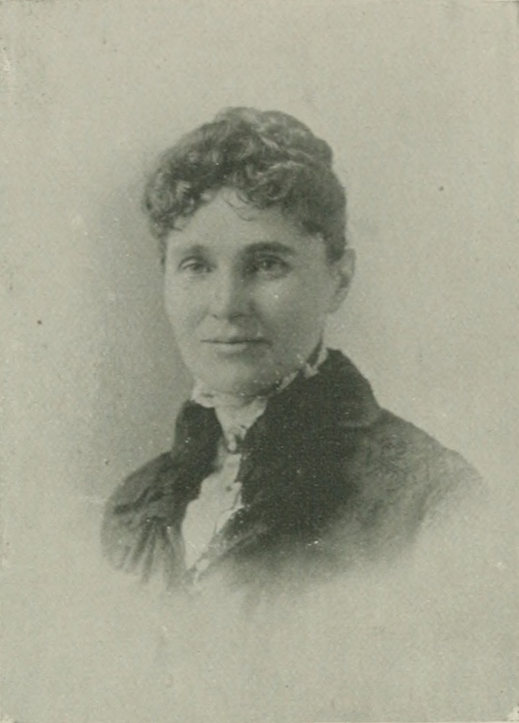 Page:A woman of the century.djvu/